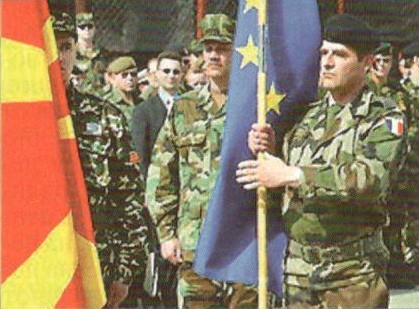 EU police consulting and training mission to Macedonia - EUPOL PROXIMA (2003-2005)